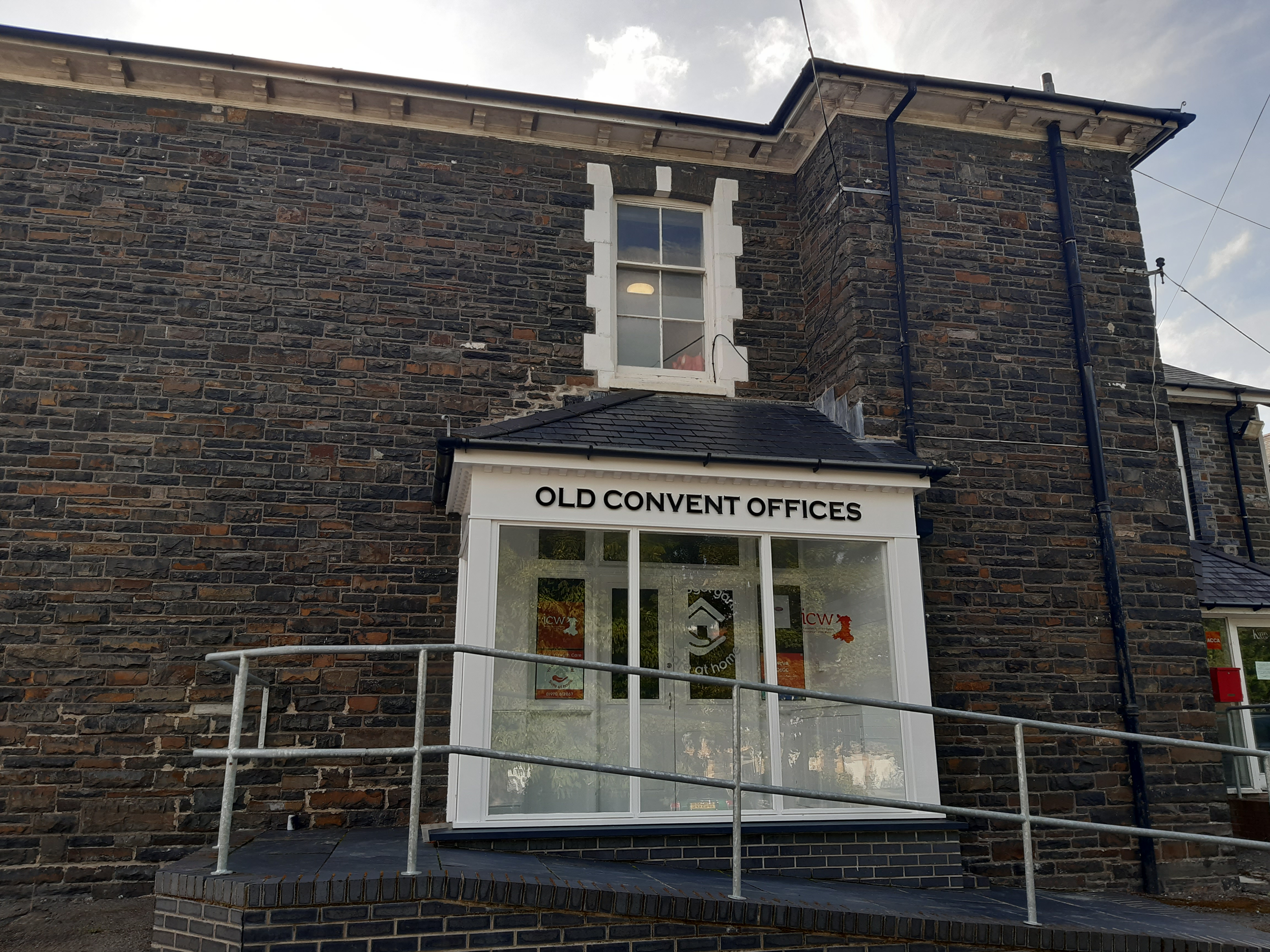 Welsh Council of Voluntary Action Aberystwyth office, Llanbadarn Rd, Aber